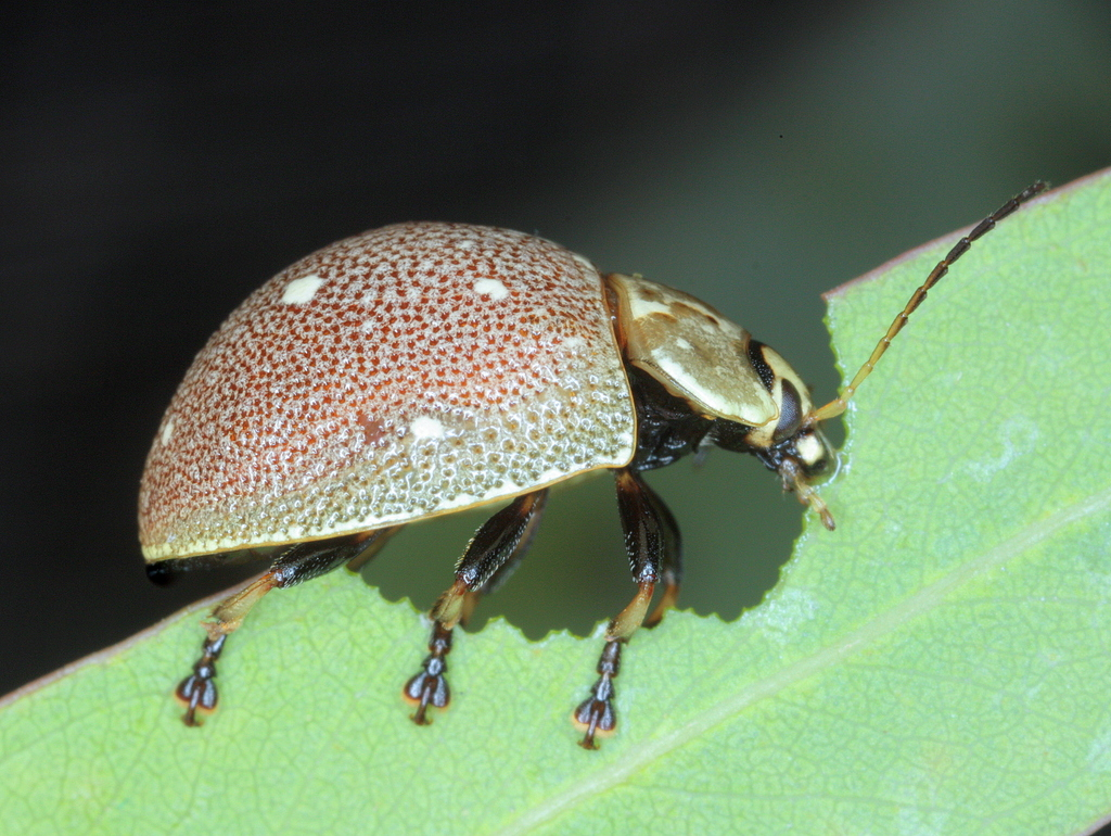 Paropsis eagrota